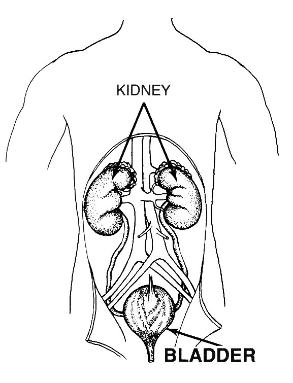 line art drawing